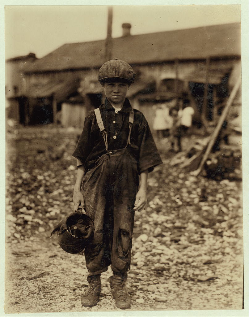 Henry, 10 year old oyster shucker who does five pots of oyster [sic] a day. Works before school, after school, and Saturdays. Been working three years. Maggioni Canning Co. Location: Port Royal, South Carolina.